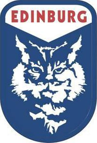 Official logo of Edinburg High School